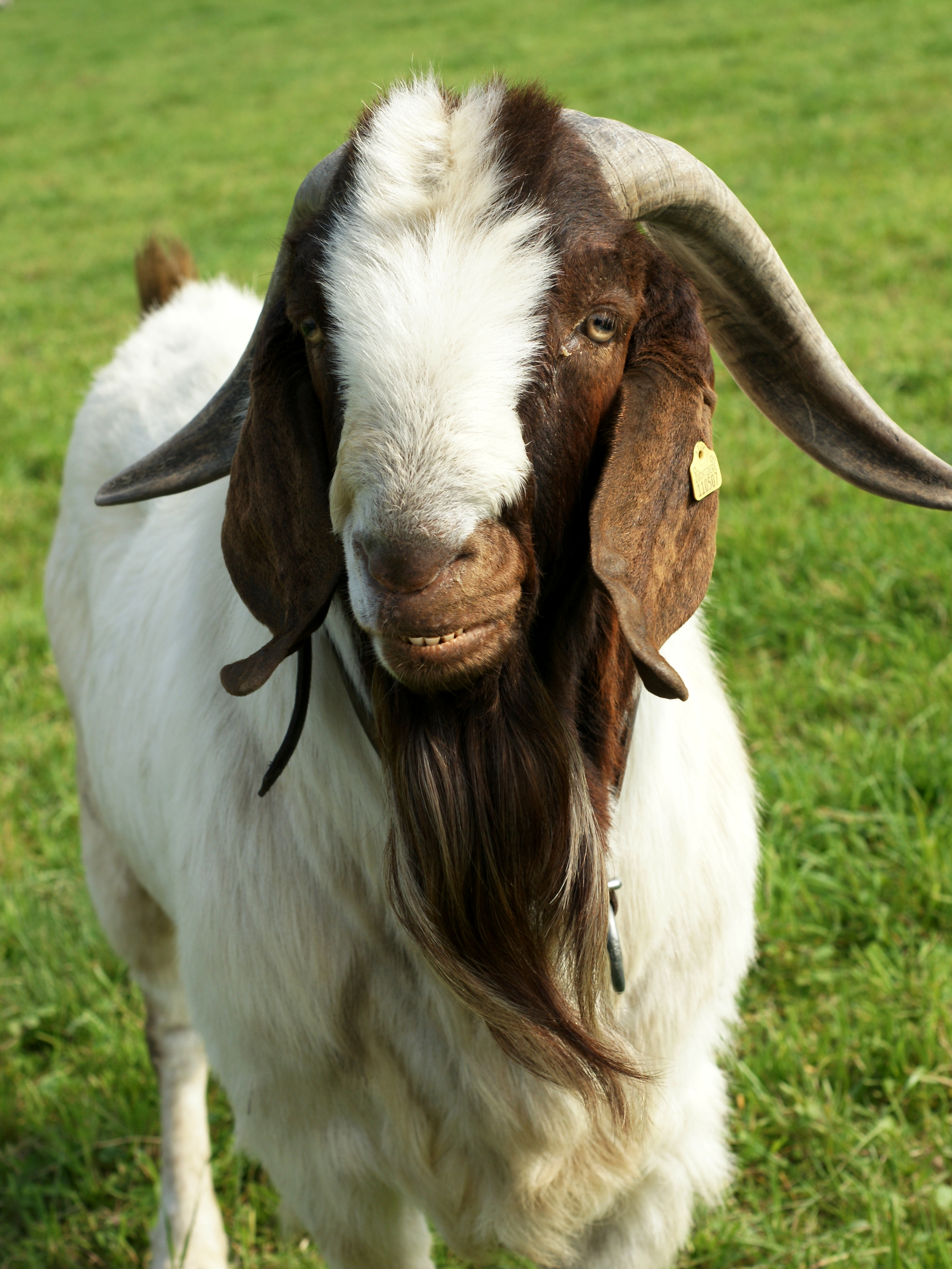 The Boer goat was developed in South Africa in the early 1900s for meat production. Their name is derived from the Dutch word "Boer" meaning farmer.